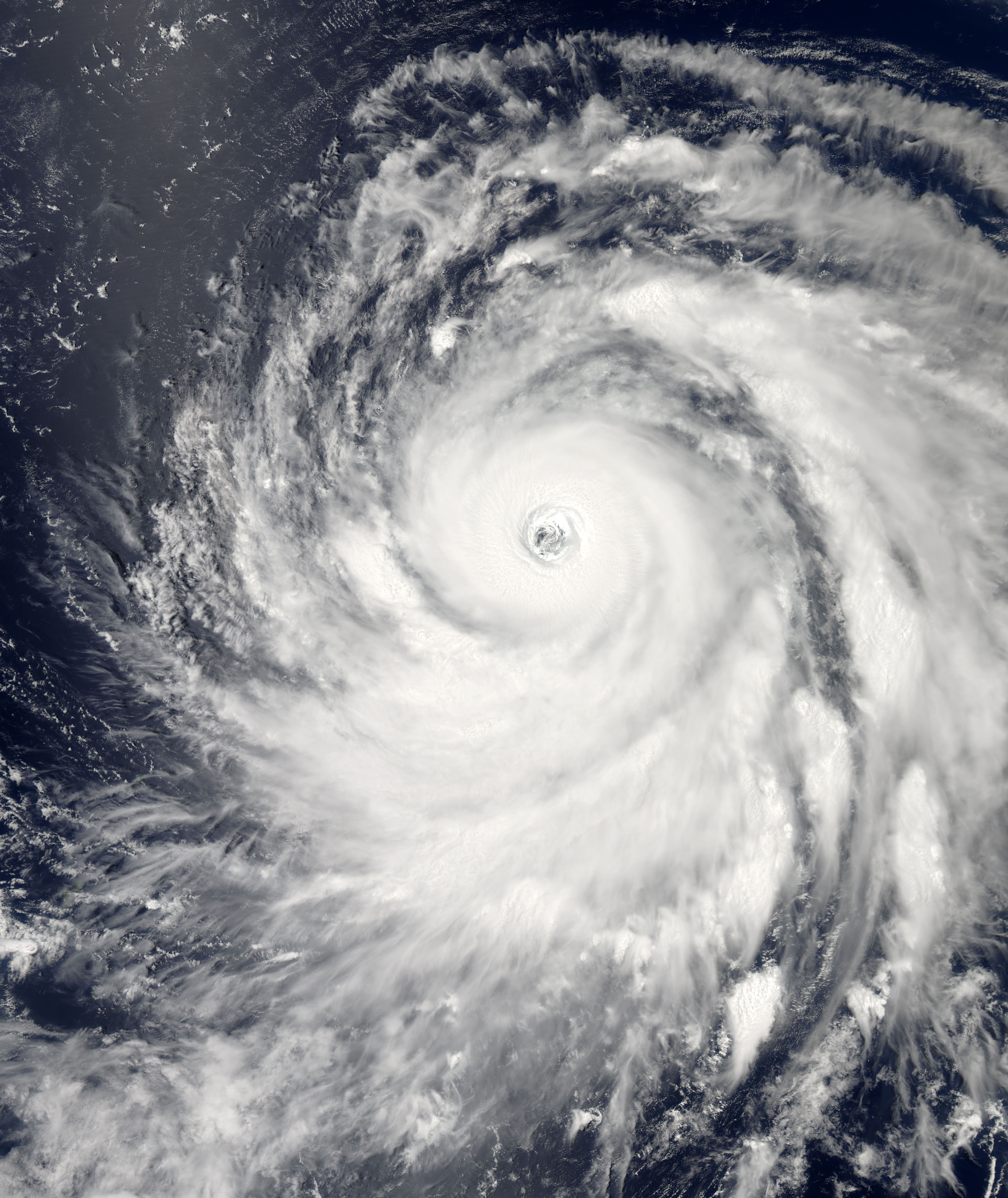 While it has been a quiet hurricane season in the Atlantic Basin, the western North Pacific has been churning out typhoons on a near weekly basis. One of the most recent to emerge—Atsani—achieved super typhoon status (equivalent of a Category 4 or 5 storm) earlier this week as it churned over the Pacific well northeast of Guam and Saipan. Atsani was the twelfth typhoon and sixth super typhoon of the year in the western North Pacific—numbers that meteorologists say put the season on a record-breaking track. While the storm will likely curve northeast in the coming days and miss Japan, it remains of interest to atmospheric scientists studying the inner workings of typhoons. The image, acquired the same day by the Moderate Resolution Imaging Spectroradiometer (MODIS) on the Aqua satellite, showing Super Typhoon Atsani is at peak intensity at 03:20 UTC.